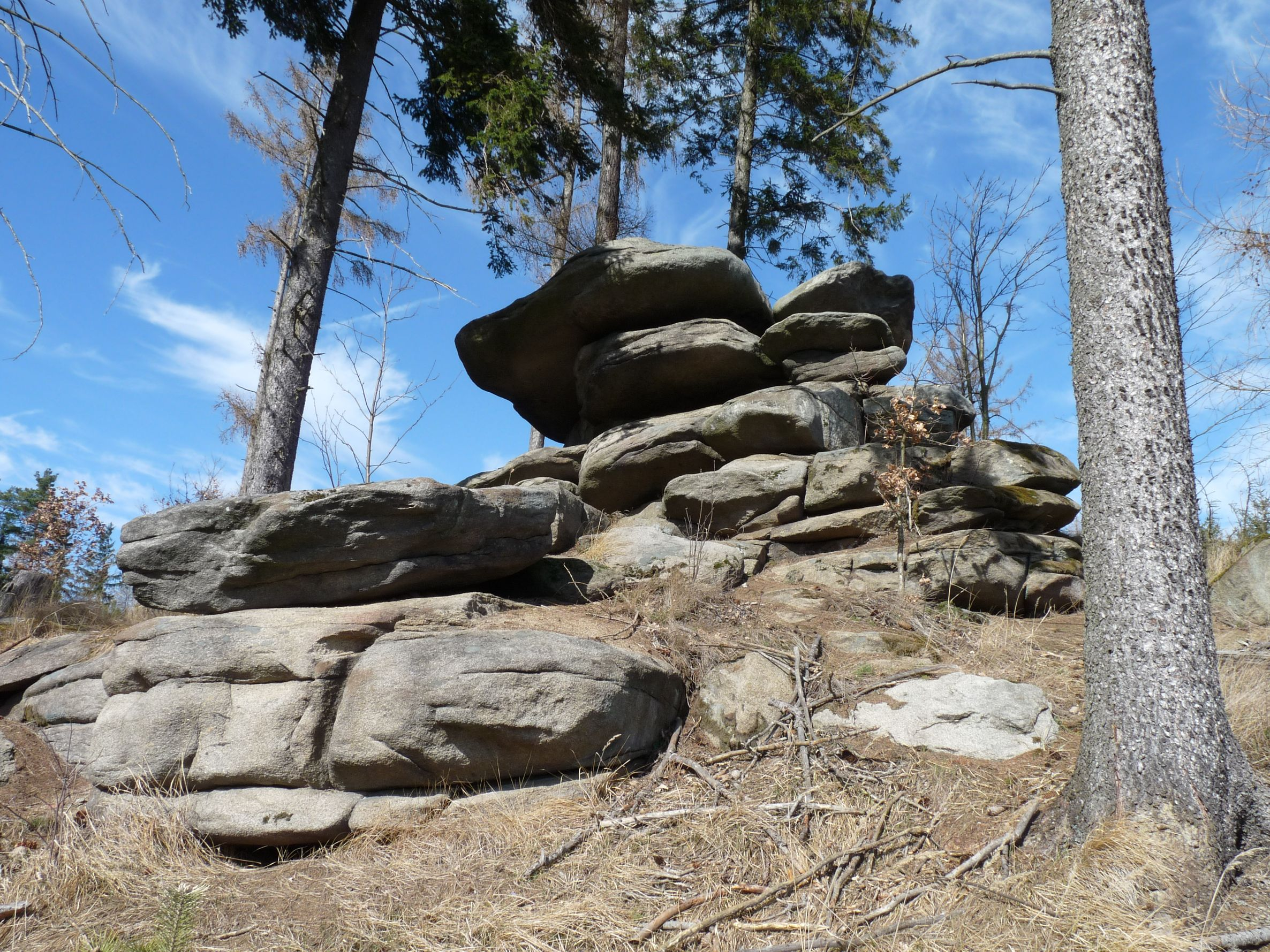 Velký Čertův náramek (Big Devil's Bracelet) is a stone natural monument betwen the villages of Slatina and Kadov, Klatovy District, Czech Republic, on the educational trail Kadovský viklan.